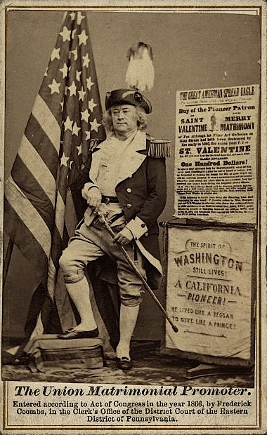 Carte de visite “The Union matrimonial promoter“ showing Frederick Coombs (1803-1874), front